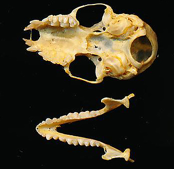 Myotis muricola